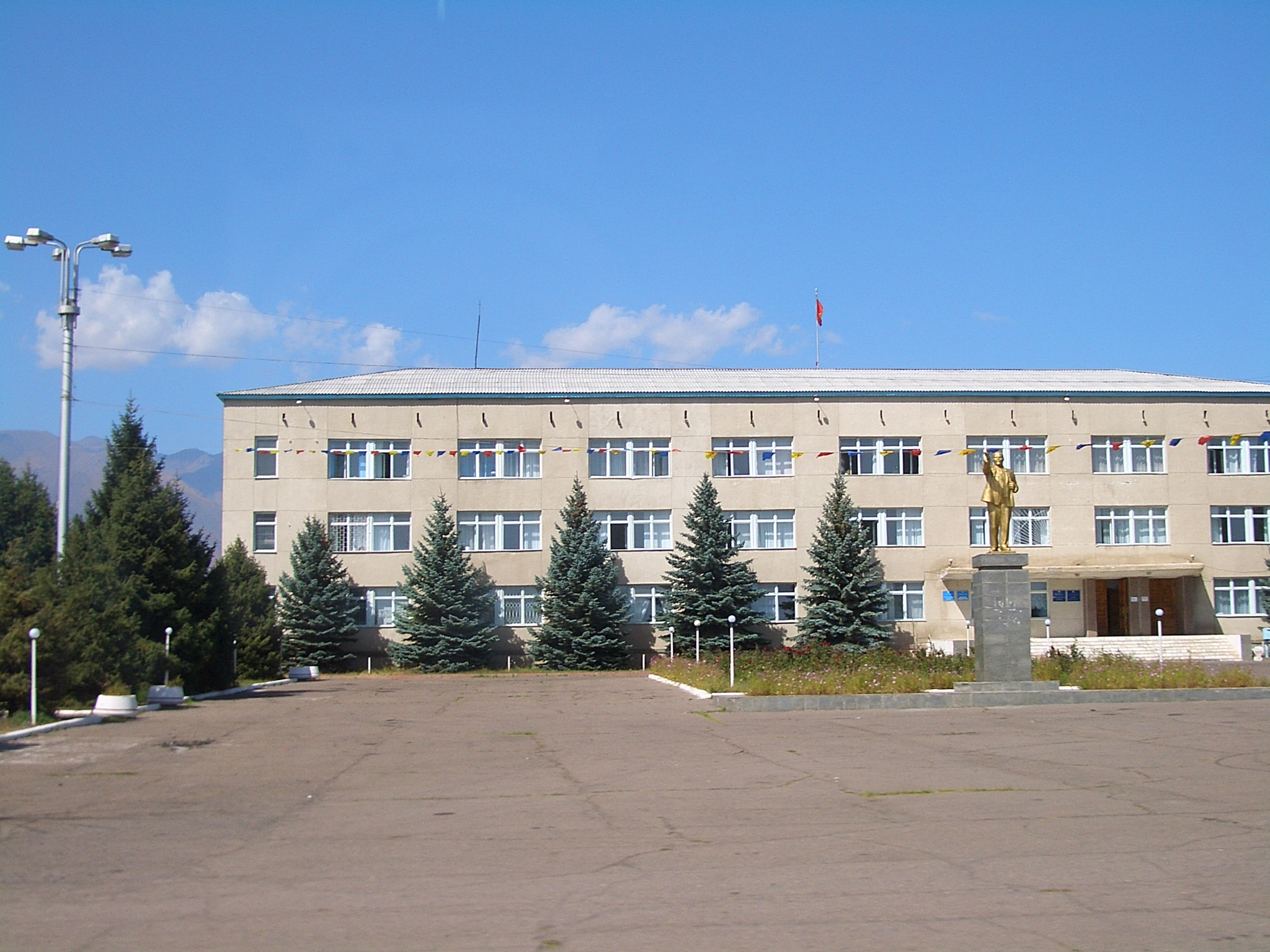 A government office in Balykchy, Issyk Kul Province, Kyrgyzstan.